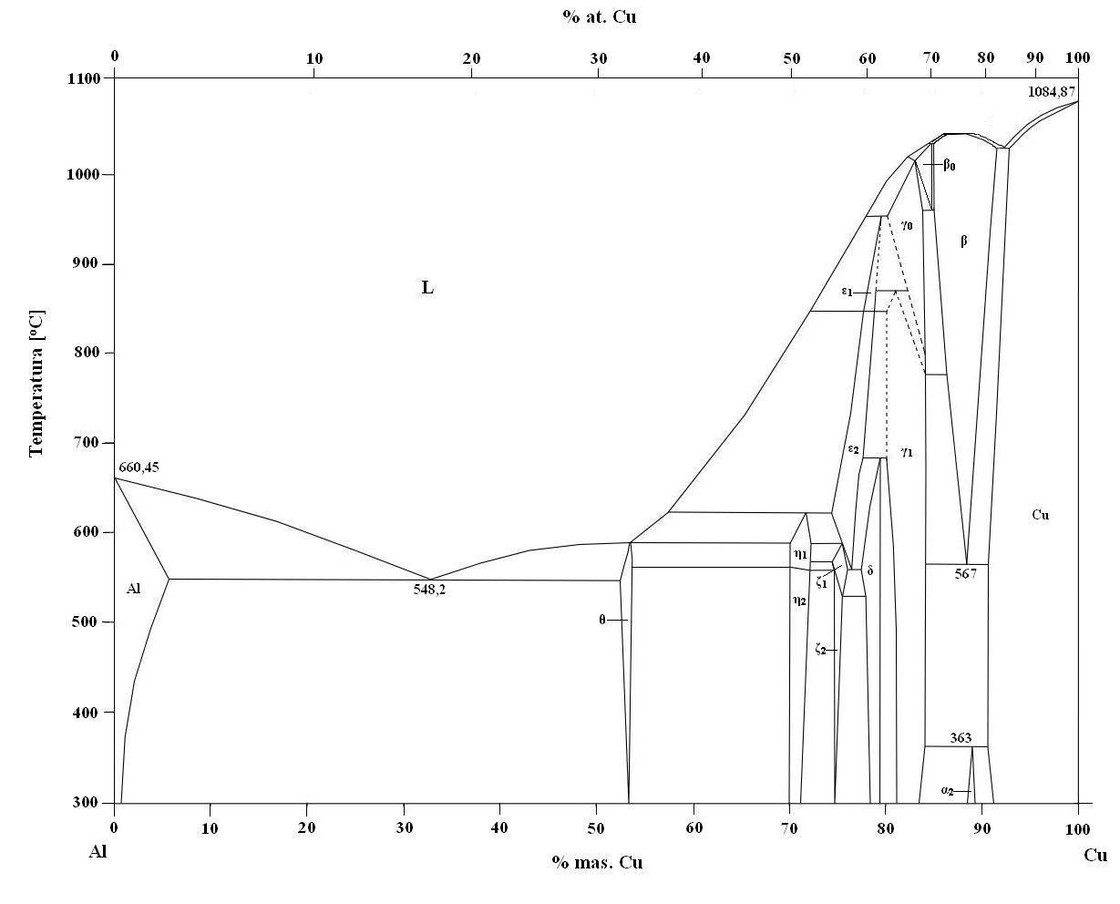 Binary phase diagram of AlCu.Attention: Diagram have illustrative and educational value. Some of the points and temperatures ​​over time may change due to the use better equipment and get much more pure alloys. Diagram made ​​on the basis of numerous dates from the literature in Polish and English language.